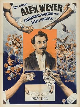 Circus poster advertising The Great Alex Weyer printed by Adolph Friedländer in 1903